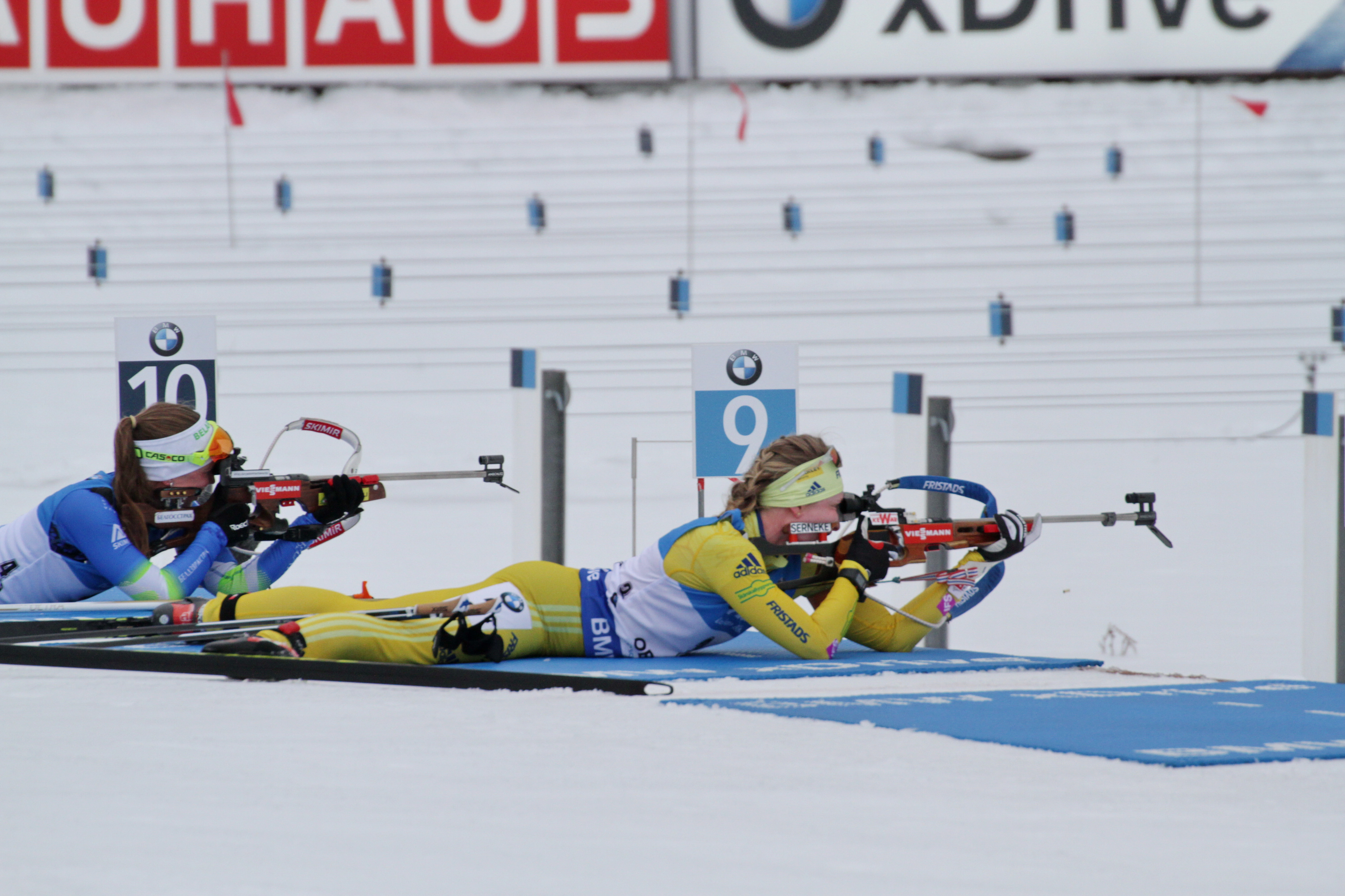 2018 Oberhof Biathlon World Cup - Sprint Women